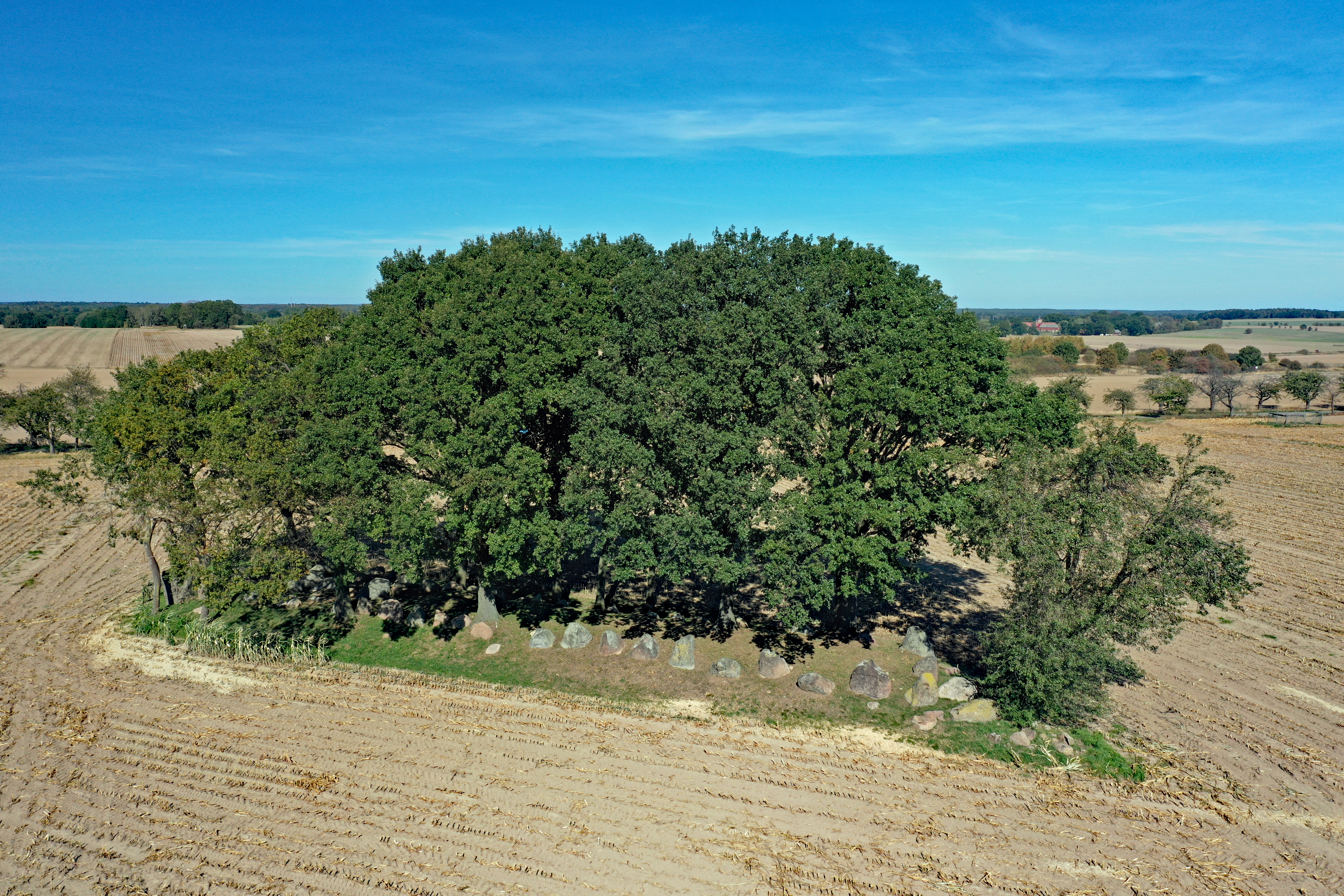 Megalithic in Altmark (Saxony-Anhalt, Germany) Drebenstedt